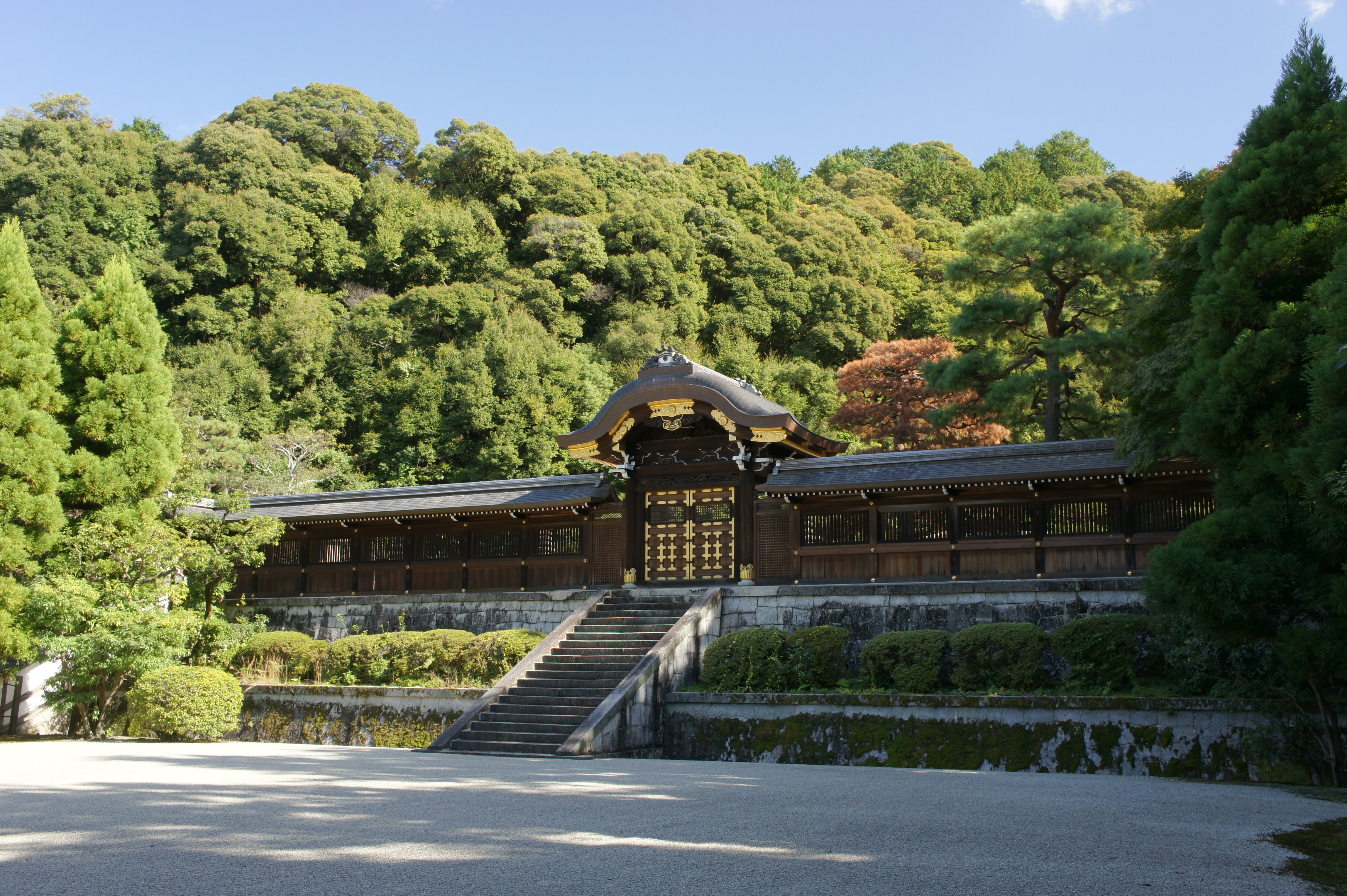 Sennyu-ji in Higashiyama-ku, Kyoto, Kyoto prefecture, Japan